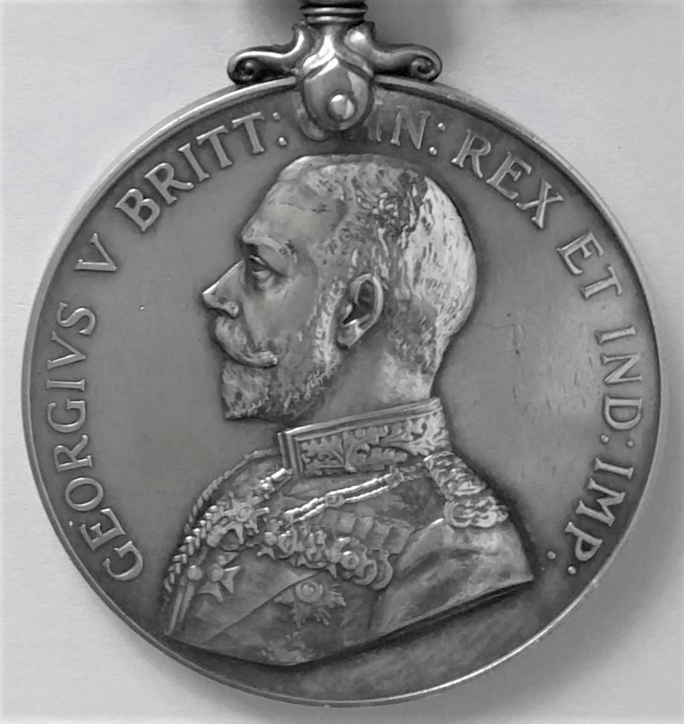 British and Commonwealth bravery medal, version awarded in World War I